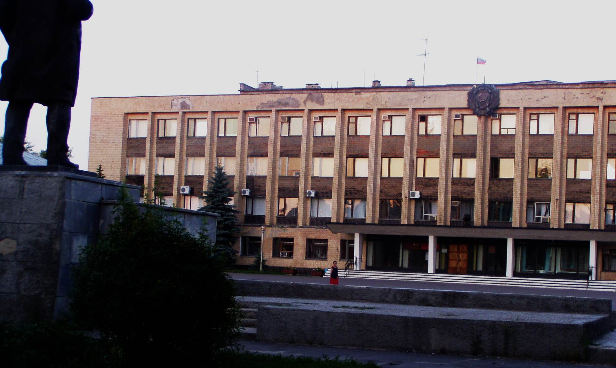 Government house of district and town of Uryupinsk. Sunset.